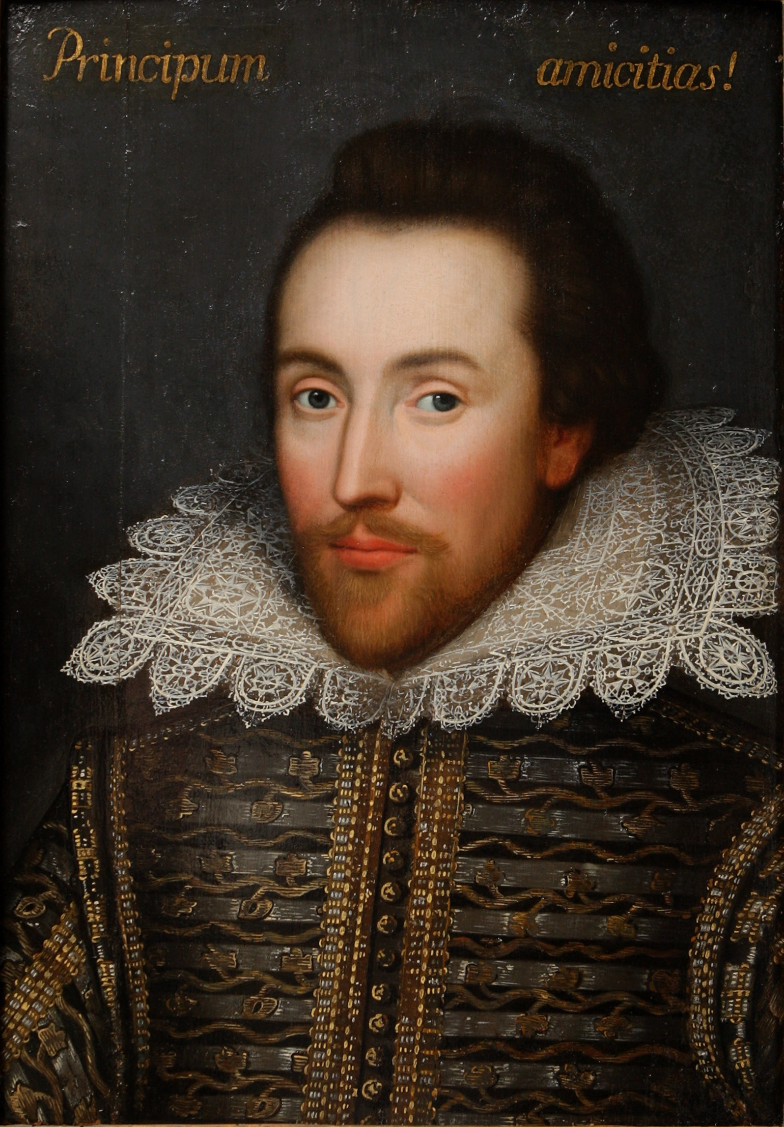 Cobbe portrait, claimed to be a portrait of William Shakespeare done while he was alive